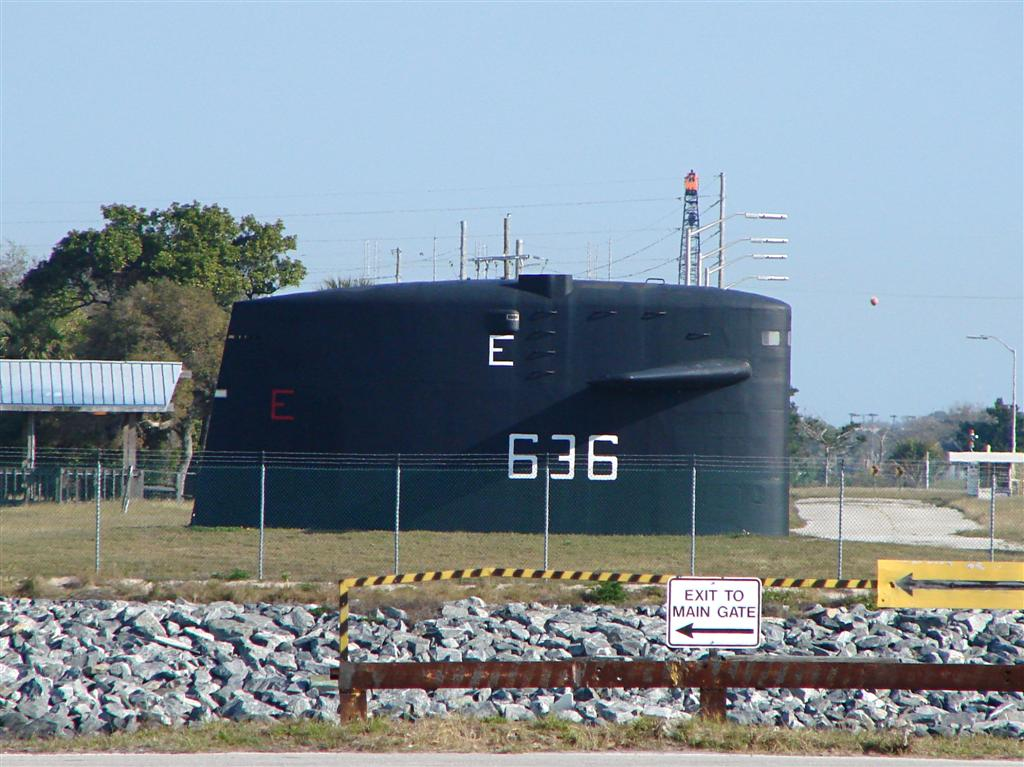 Sail of the James Madison-class submarine USS Nathanael Greene (SSBN-636) on display in Port Canaveral, Florida. February 20, 2007.